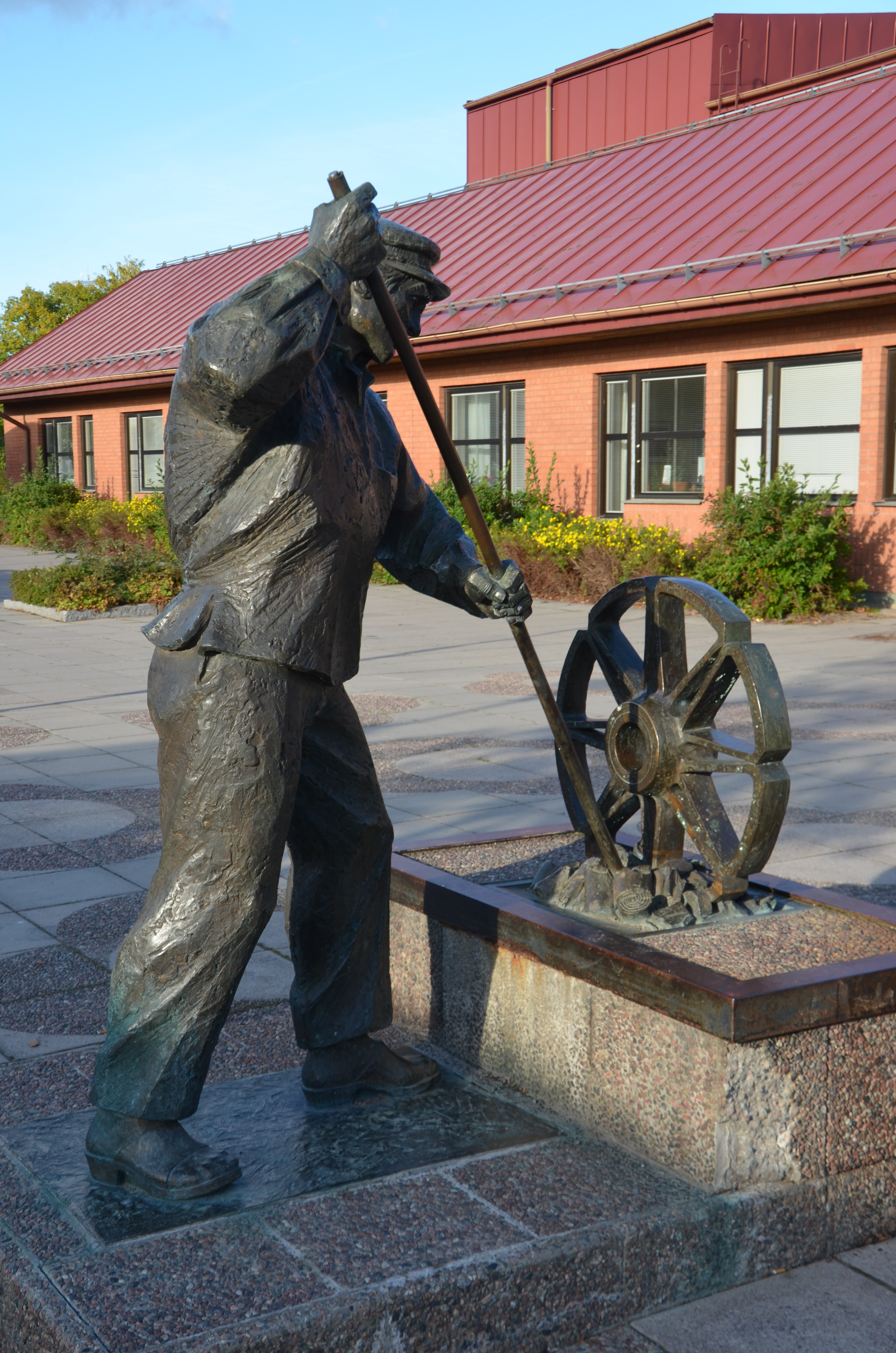 Per Nildon Östs Hjulsmeden på torget i Surahammar, brons, 1985